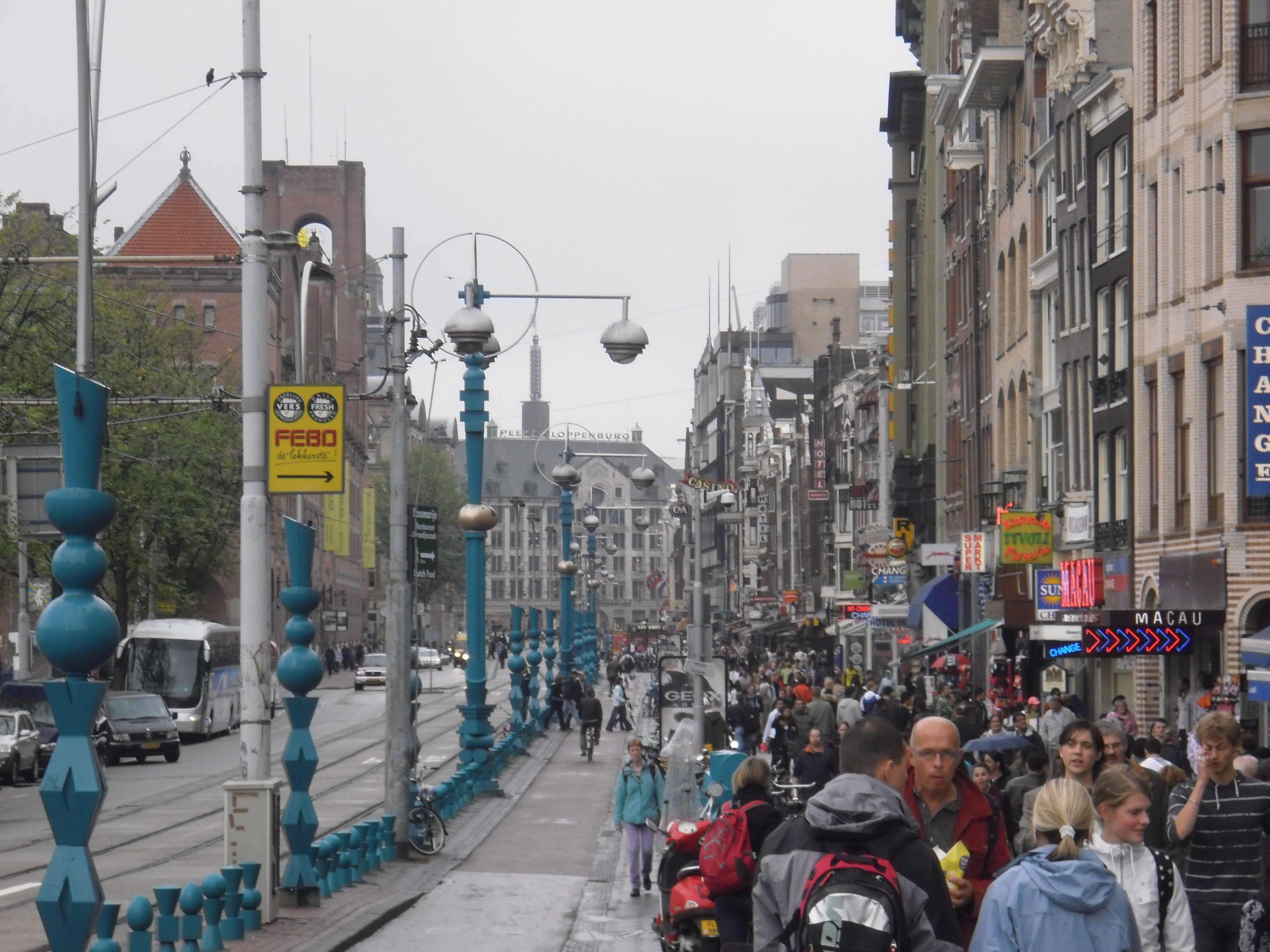 Damrak, Amsterdam, The Netherlands